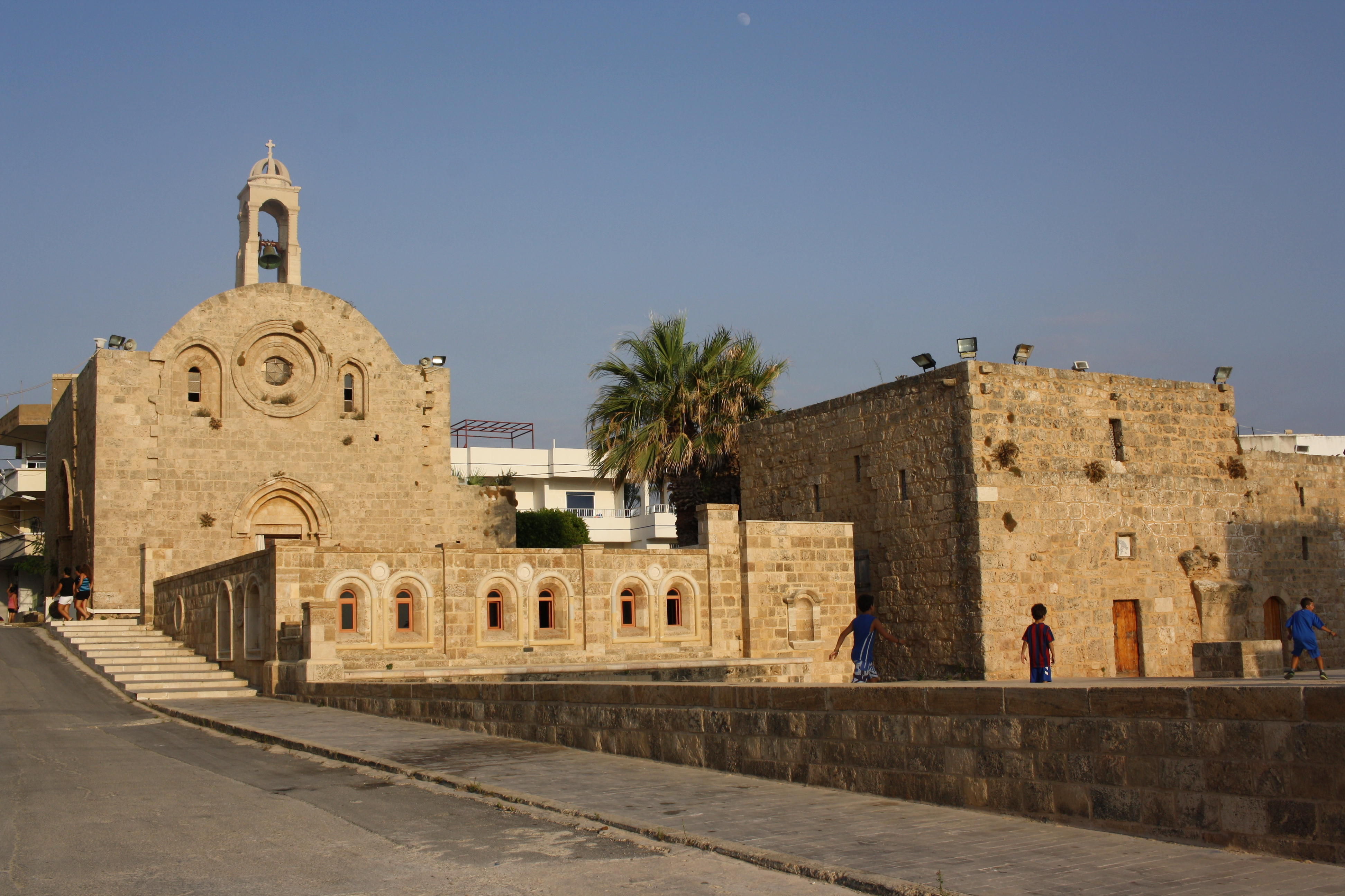 L'église Sainte-Catherine à Enfeh au Liban